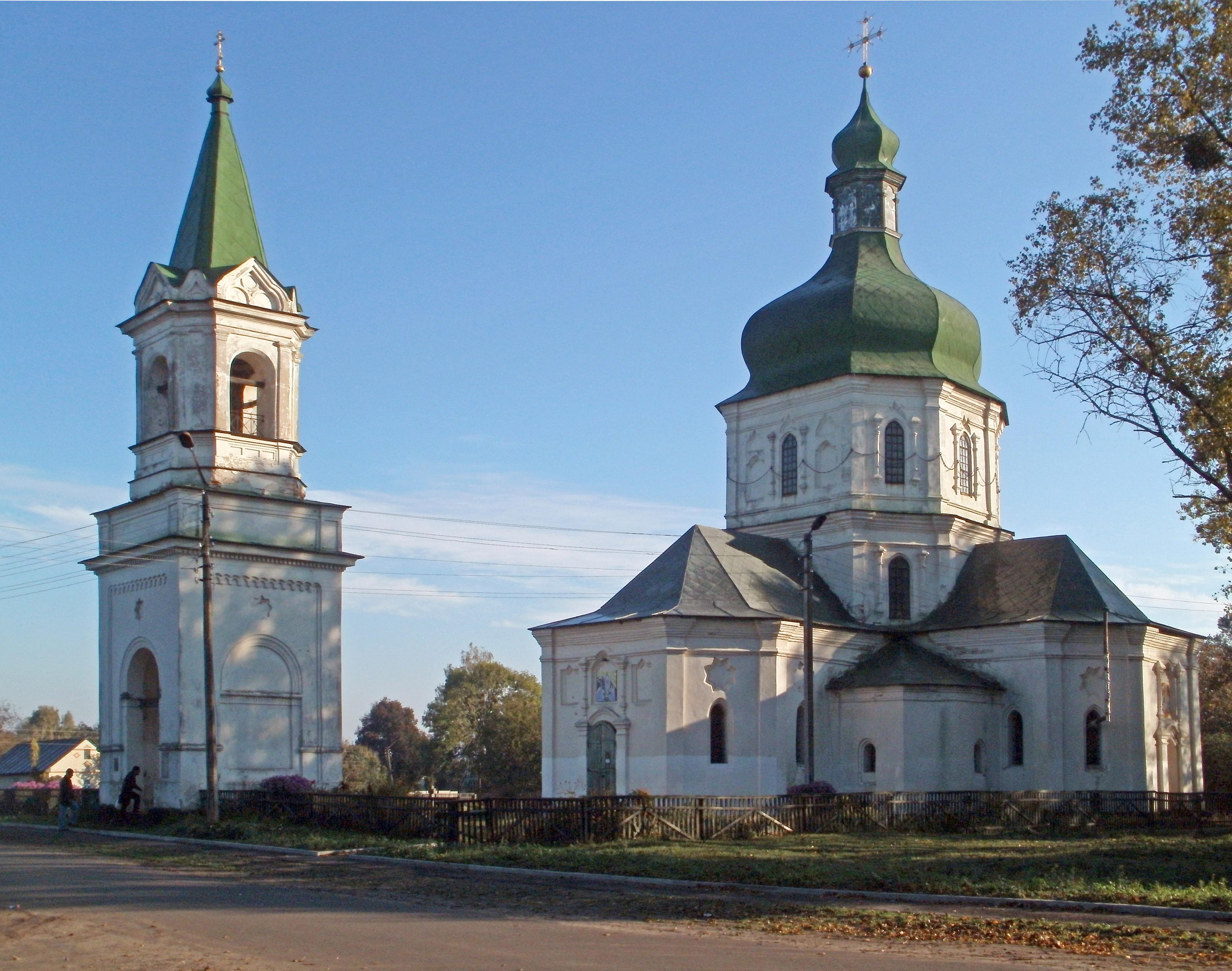 Church of Resurrection of Christ in Sedniv